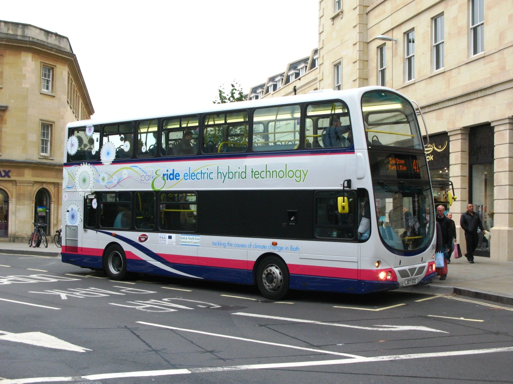 The ex-Arriva London Wrightbus Gemini HEV diesel/electric hybrid bus LJ07ECE. With fleet number 39000 it is working a First Somerset and Avon Park and Ride service in Bath, Somerset, at the Southgate bus stop in the city centre.